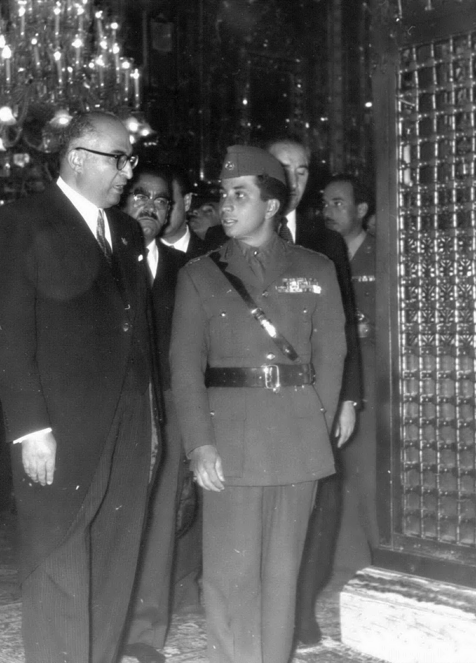 Faisal II of Iraq - Mashhad - Holy Shrine of Imam Reza (2)